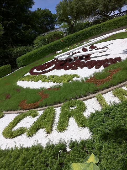 Photograph of the Floral Clock in Riverside Park, Guelph ON.